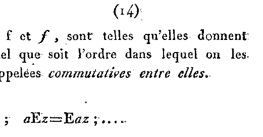 Excerpt from Annales de Gergonne, a French journal that ran from 1810 to 1832 showing the first use of the term commutative